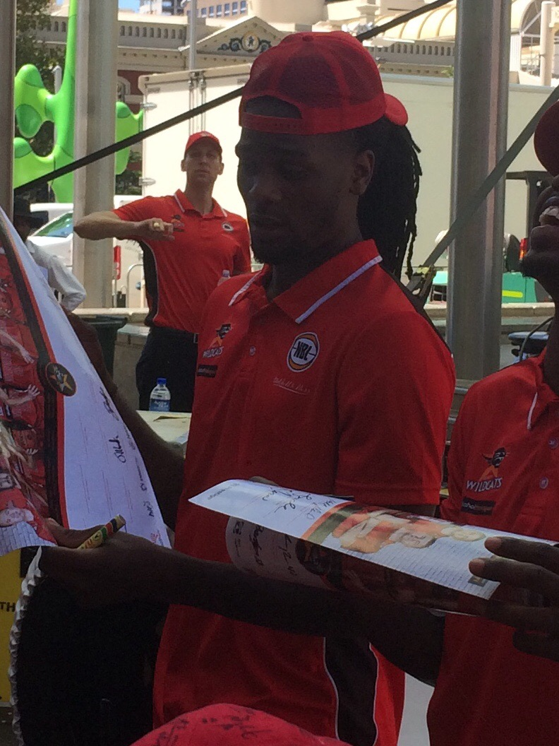 Jameel McKay at the Perth Wildcats’ 2017 championship ceremony